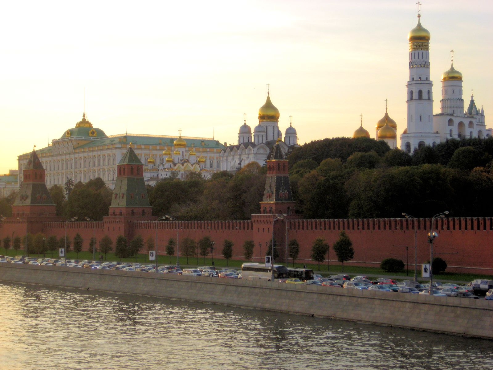 Kremlin Buildings